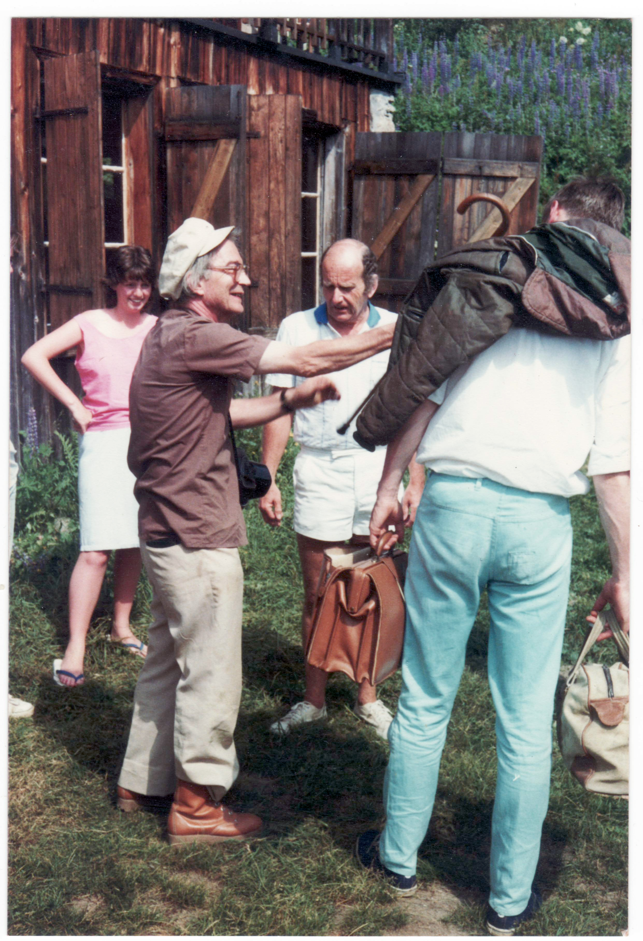 The Chalet des Anglais is some 4500 feet up on the side of Le Prarion, a small mountain on the Mont Blanc massif. It was first built in the 1860s by an eccentric diplomat called David Urquhart, burned down in 1906, rebuilt in 1909 and used ever since by a combination of Balliol, New College and Univ. students for reading parties and walking holidays. The photo shows visitors from New College in summer 1983, including Wykeham Professor of Ancient History, George Forrest (2nd from left) and future warden of New College, Harvey McGregor CBE QC (3rd from left).